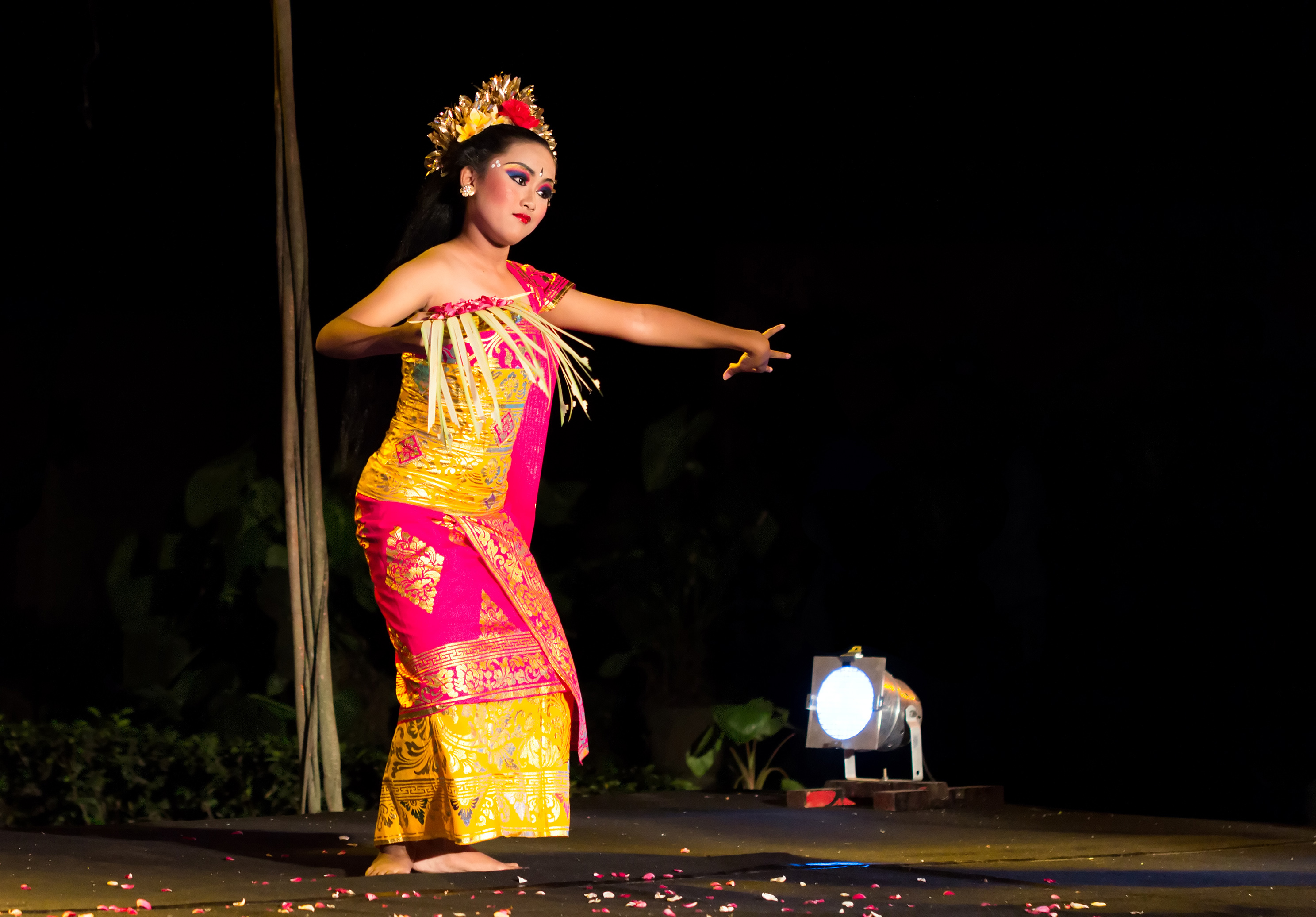 Sanata Dharma University's Sekar Jepun, a Balinese dance troupe, celebrates its 17th anniversary. Here the Panyembrama dance is performed.